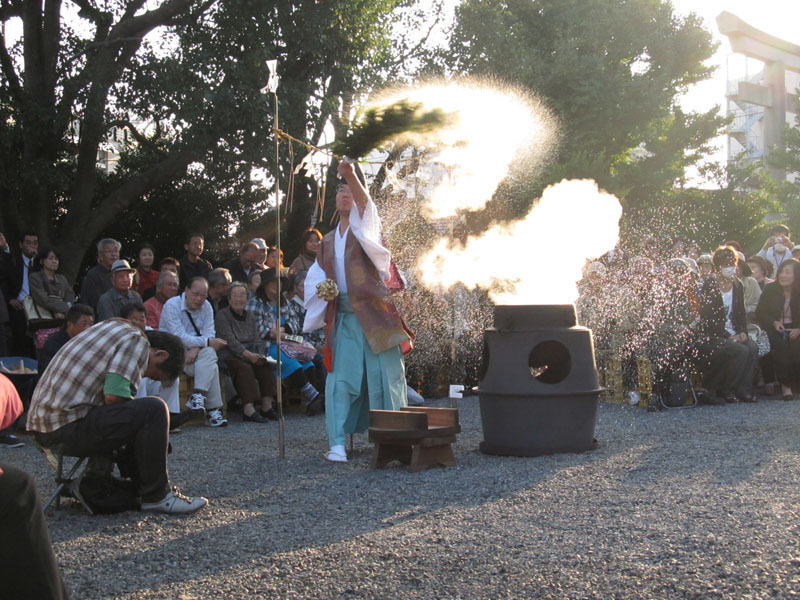 Yutate-Kagura (a traditional Shintō ceremony, sasa-no-mai) at Shirahata Shrine in Fujisawa City, Kanagawa Prefecture, Japan